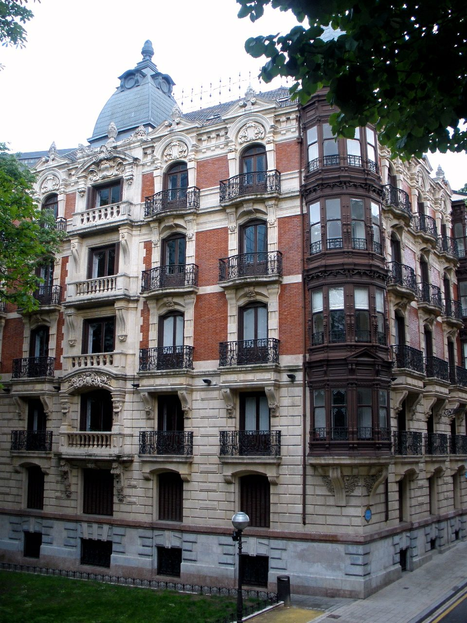 Edificio en las Rampas de Uribitarte de Bilbao (España)